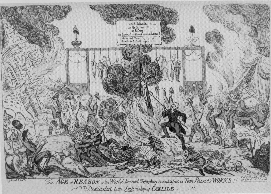 The Age of Reason